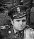 Border Protection Forces in Gierałcice.